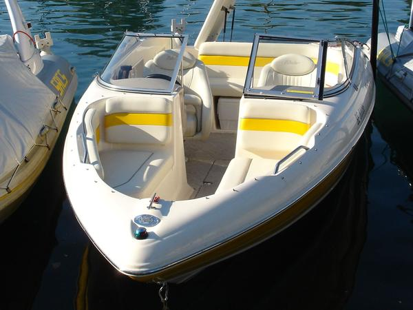 Bowrider